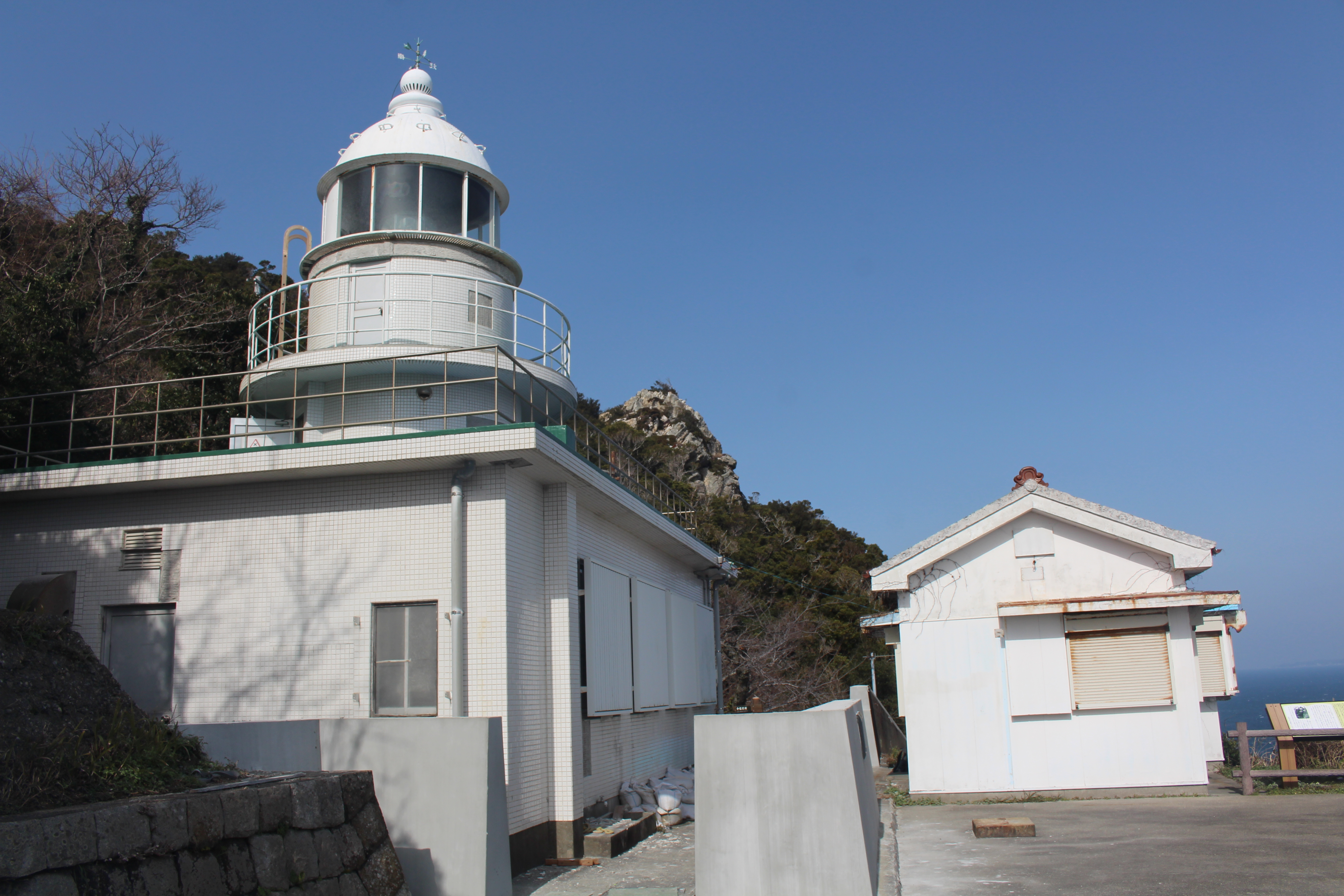 Kamishima Lighthouse in Kami Island, Toba, Mie prefecture, Japan.